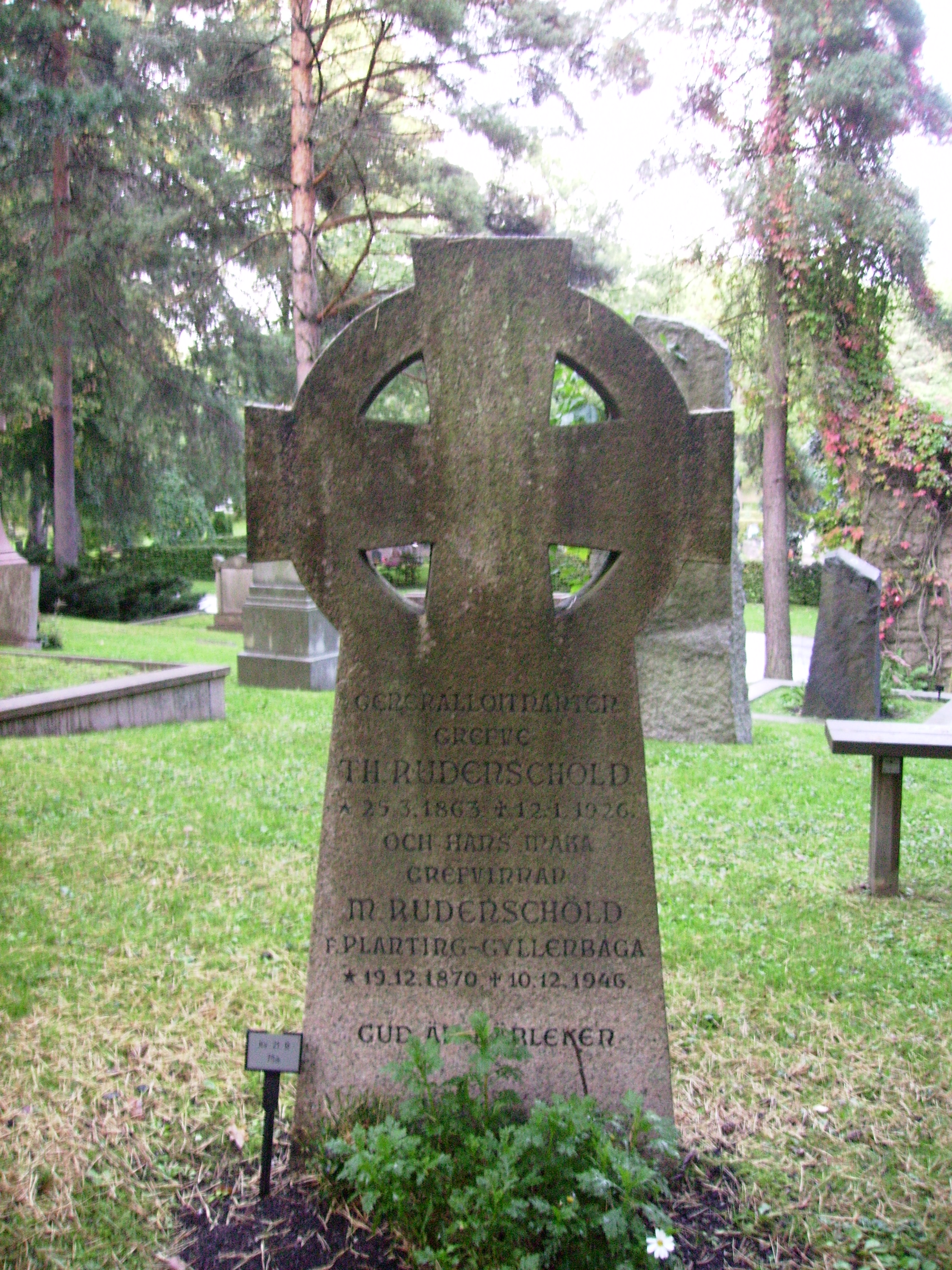 Picture of Thorsten Rudenschiöld's grave at Norra begravningsplatsen in Stockholm